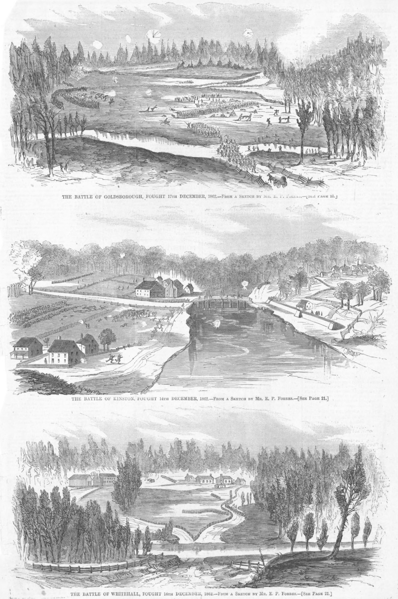 Original Prints